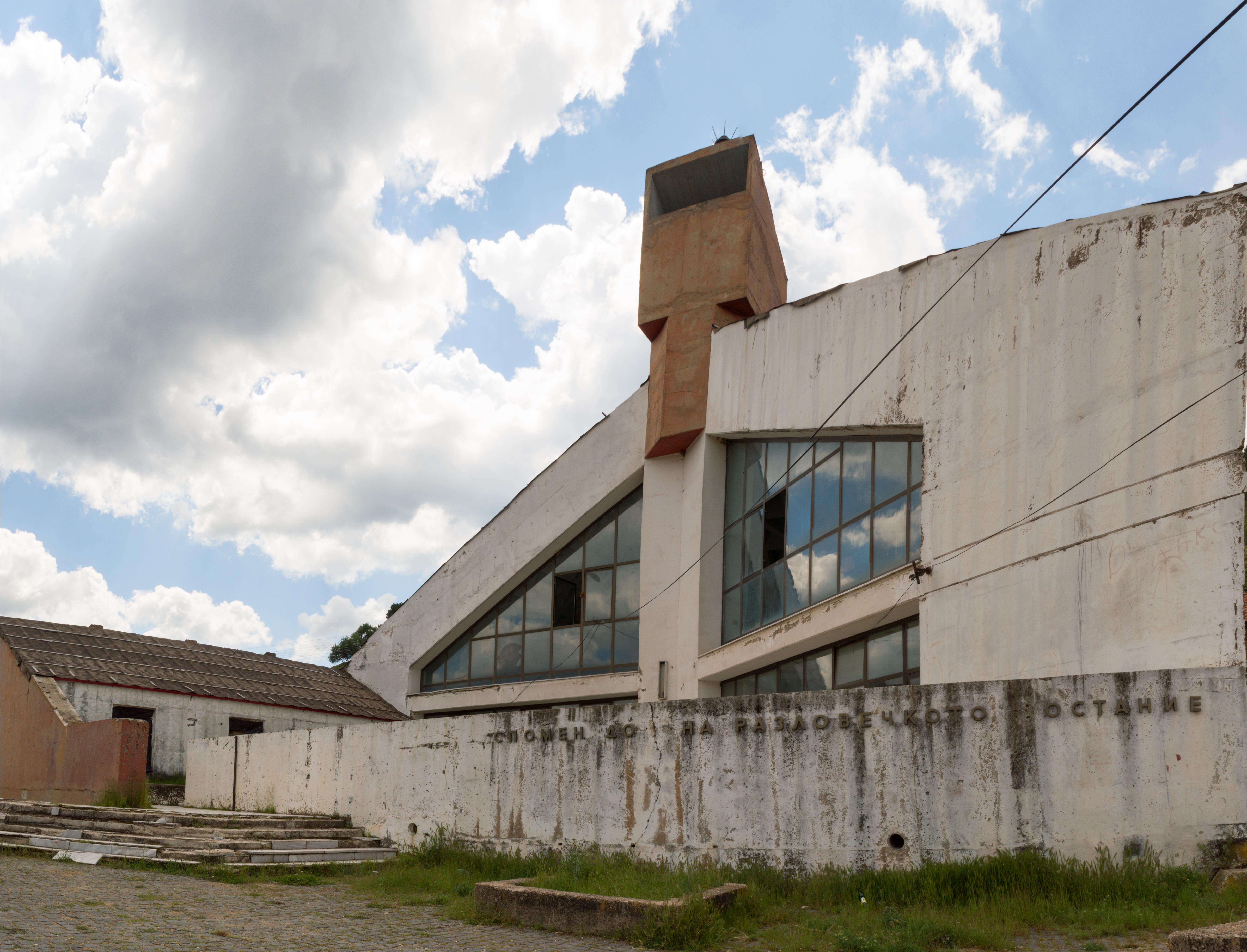 Memorial House of Razlovci Uprising in the village Razlovci